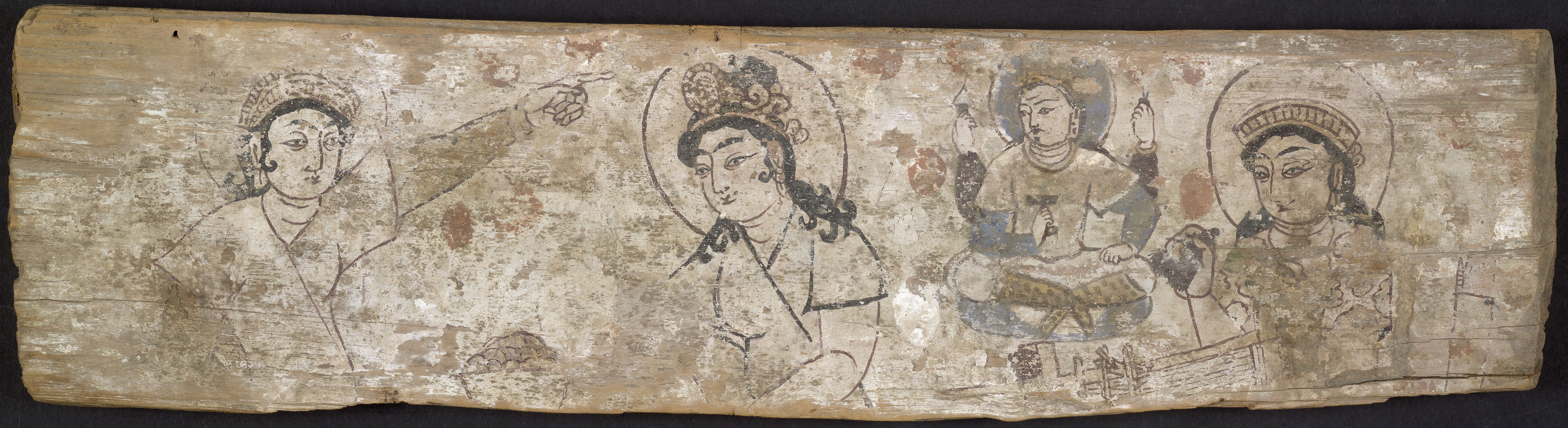 Silk Princess painting from Dandan-oilik (Place of Houses with Ivory), a Buddhist sanctuary in Khotan; from Xinjiang, China, 7th-8th century AD.